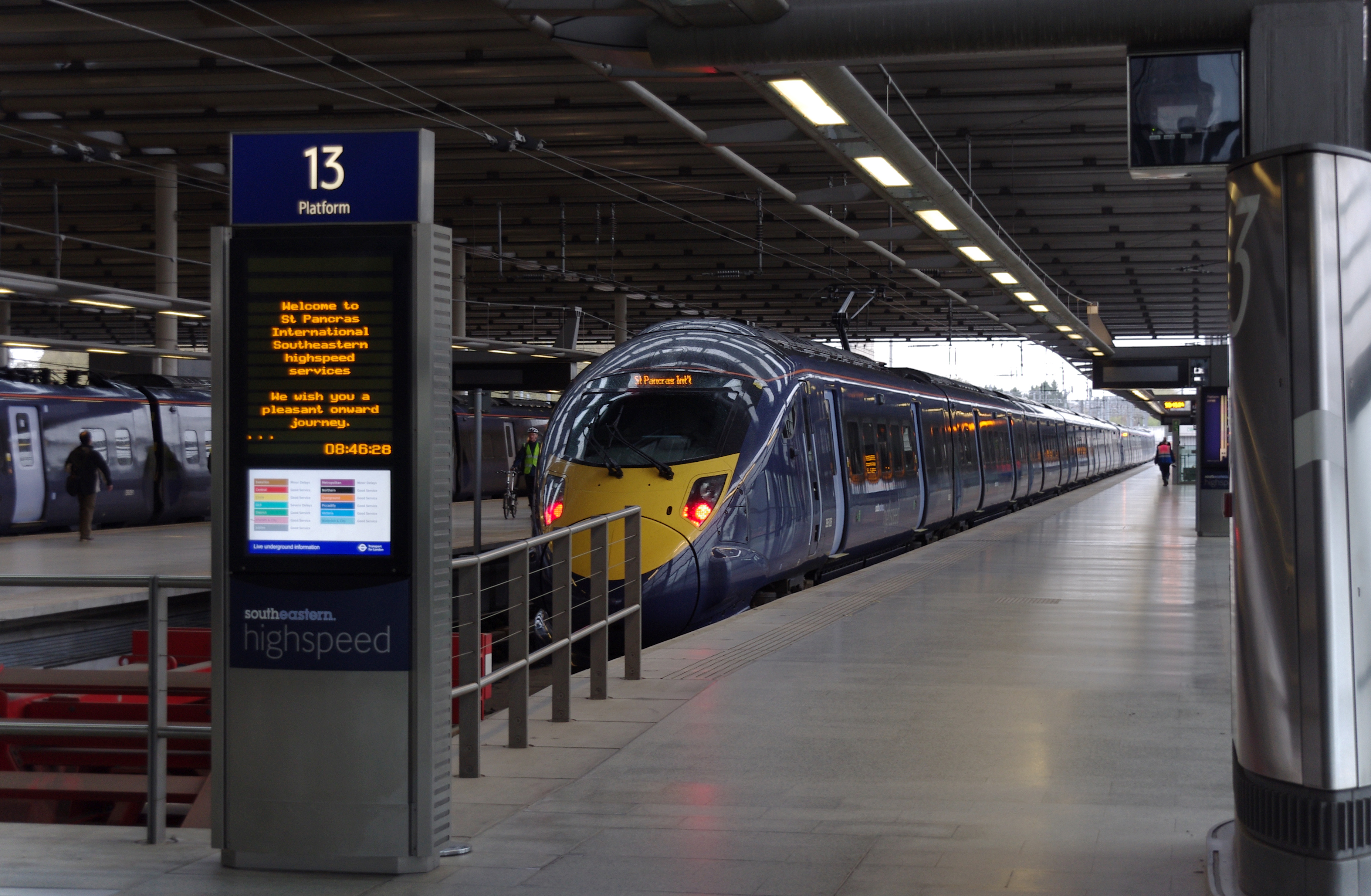 Southeastern Class 395 "Javelin" EMU 395025 stands at St Pancras railway station.